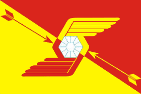 Flag of Bologoe, Tver Region, Russia